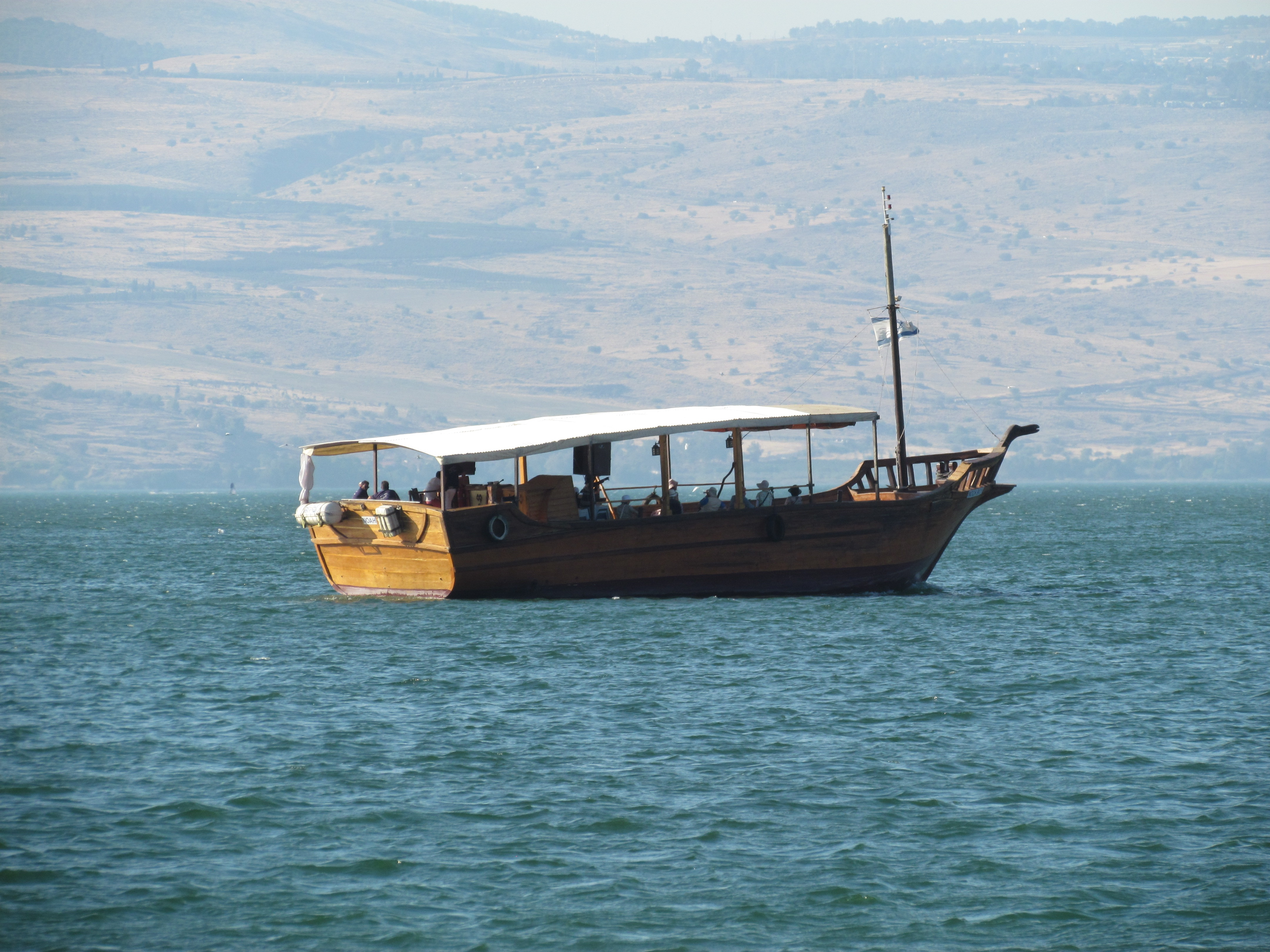 wooden boat on Sea of Galilee / Lake Tiberias